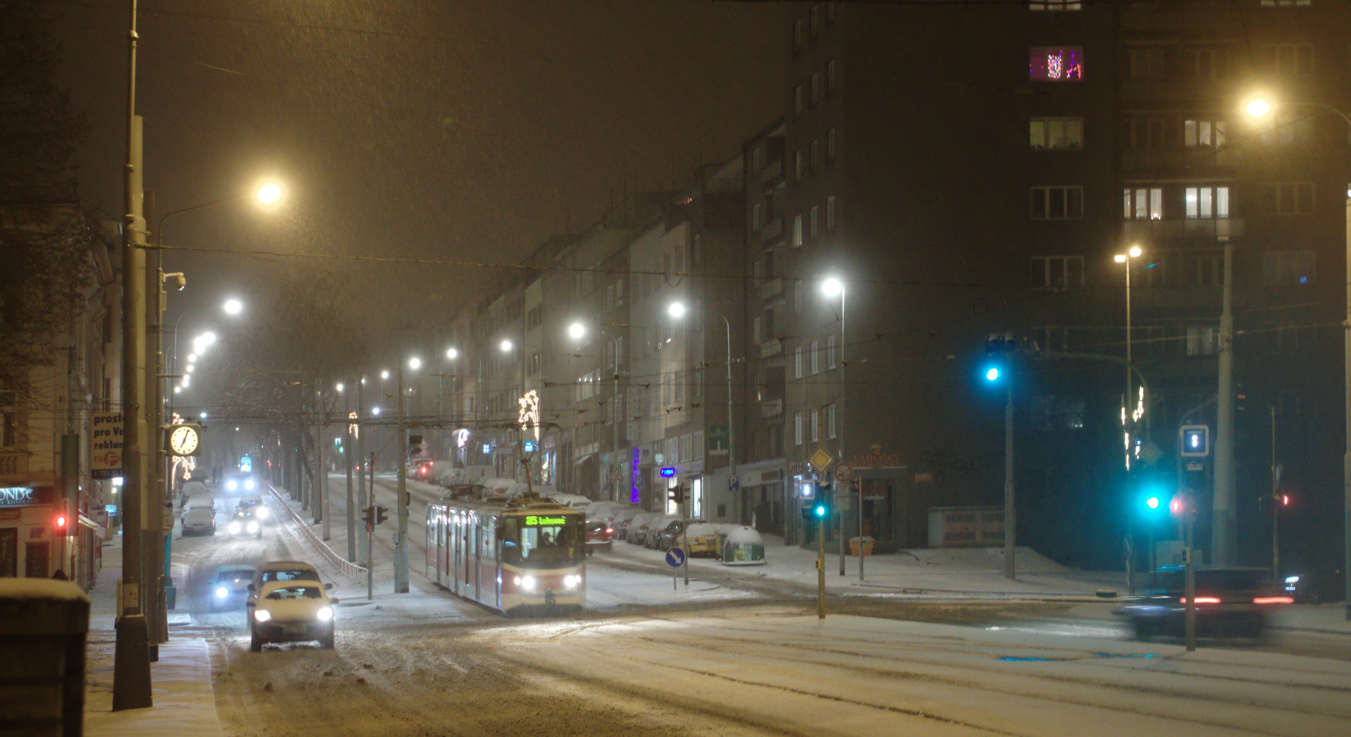 Bělohorská street in winter, Prague, CZ